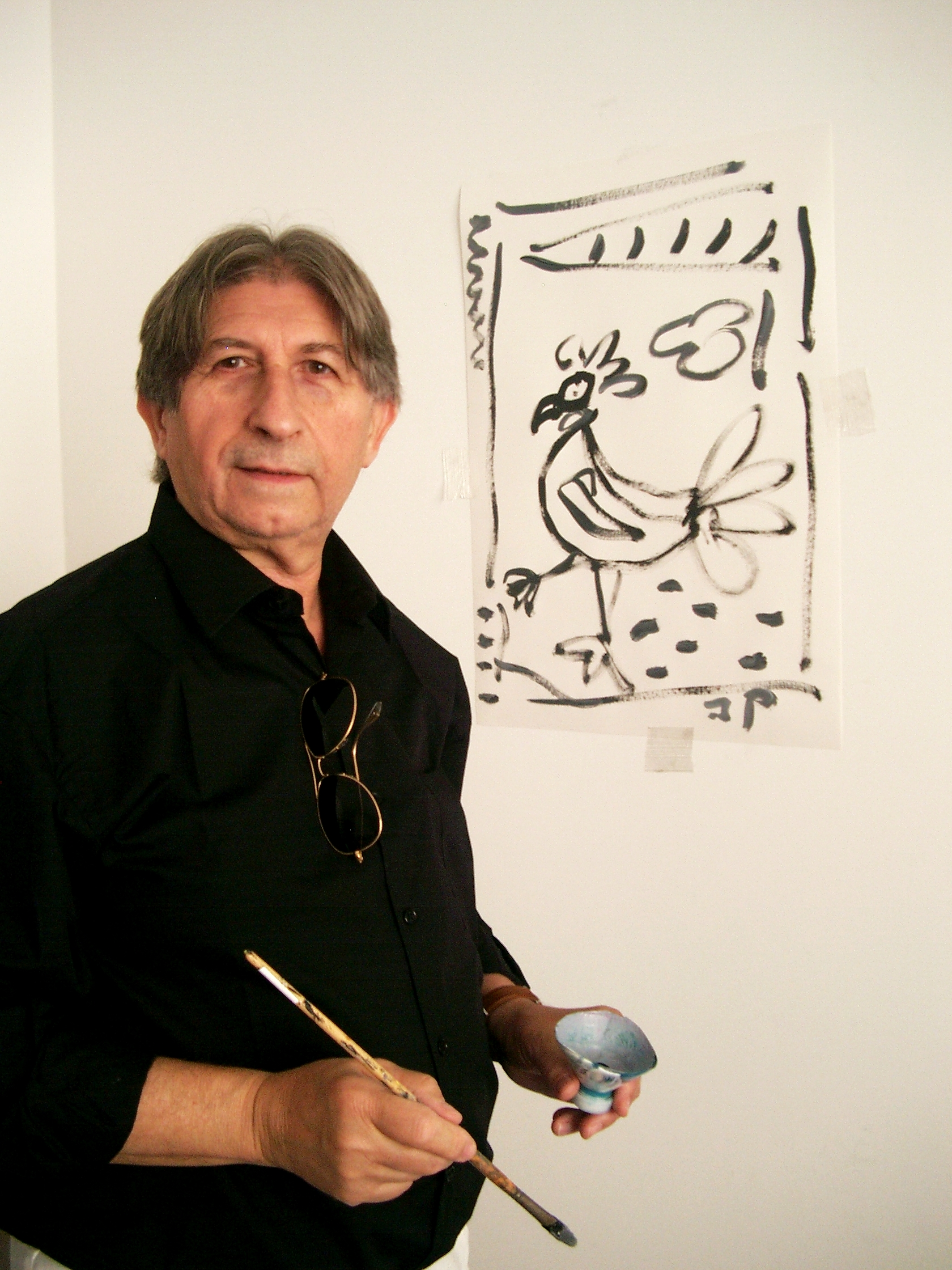 Jacques Pellegrin paints - 2010